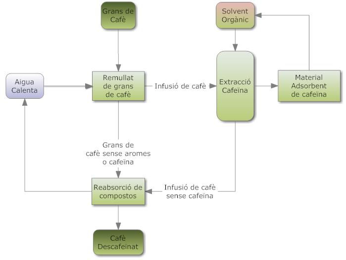 Flow diagram of Coffee Decaffeination, Indirect Solvent Method.